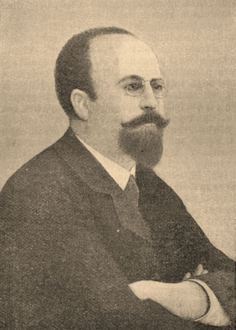 Illustration from Brockhaus and Efron Jewish Encyclopedia (1906—1913). Bernard Lazare.